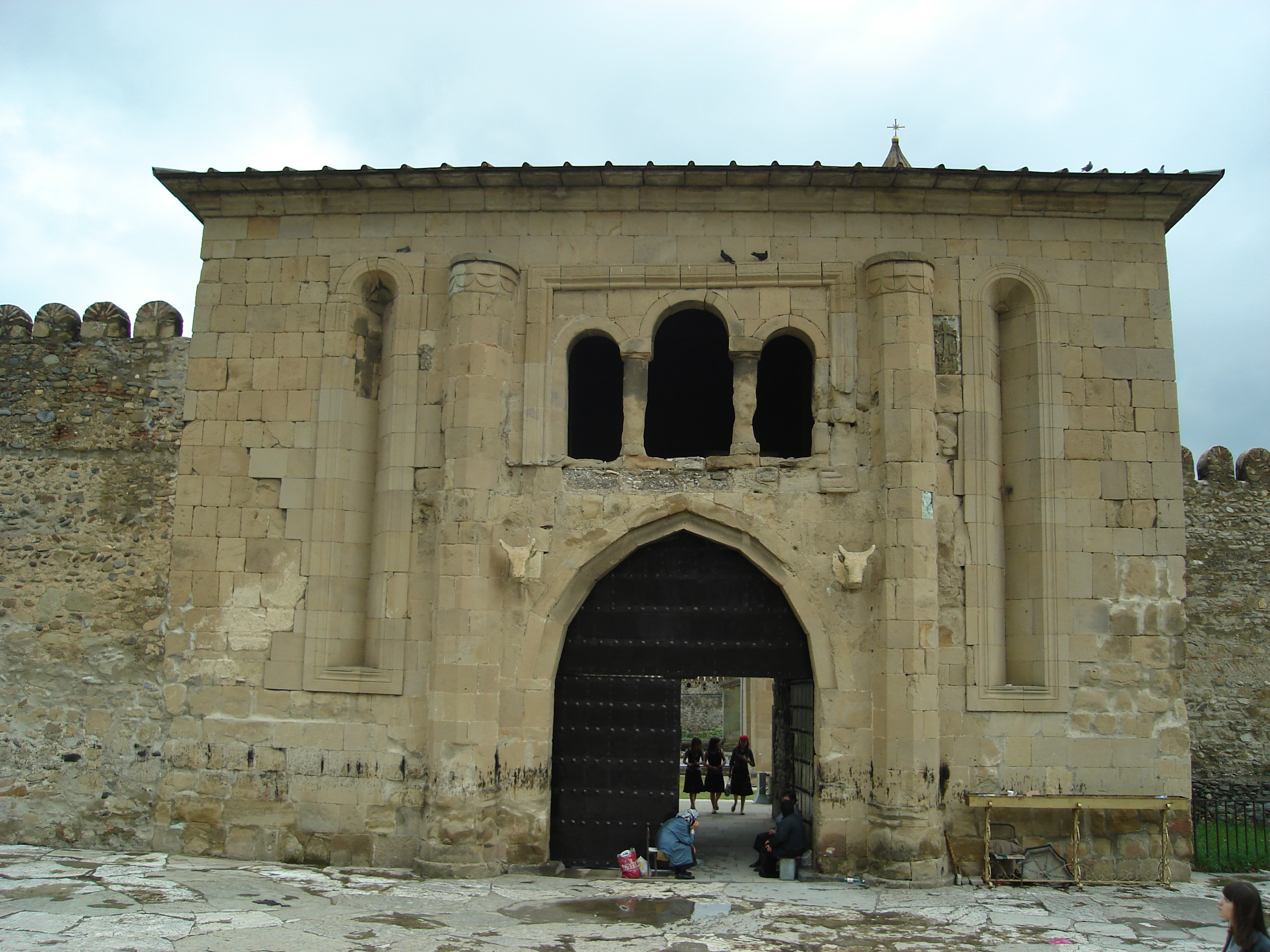 Portal in the western wall of the Svetitskhoveli Cathedral, Mtskheta, Georgia